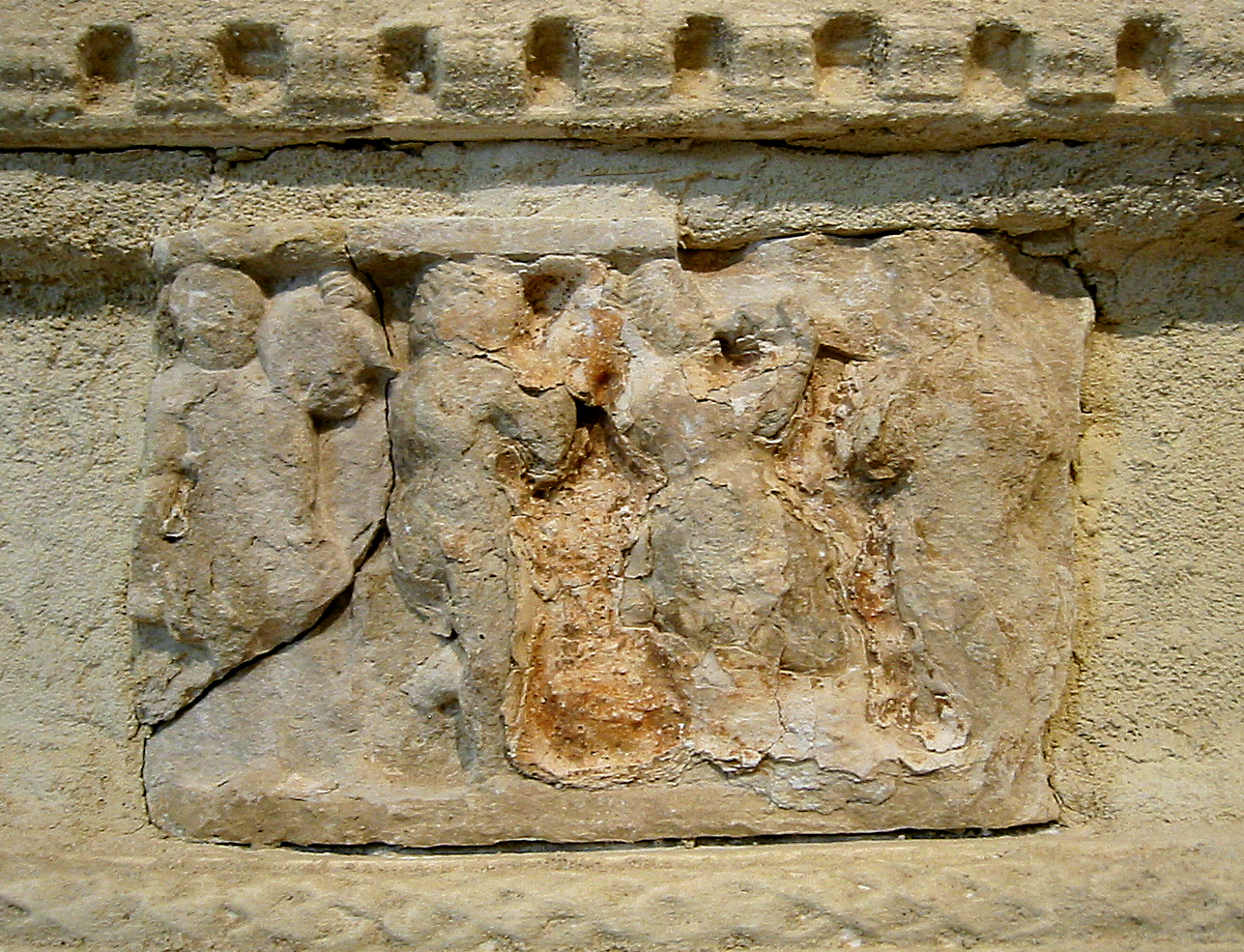 Detail of stupa C1, Hadda. Personal photograph, 2006.